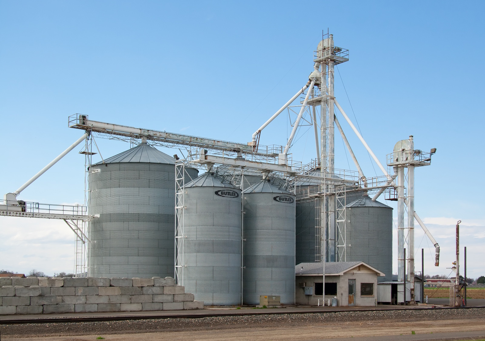 Silos in Sunnyside Washington